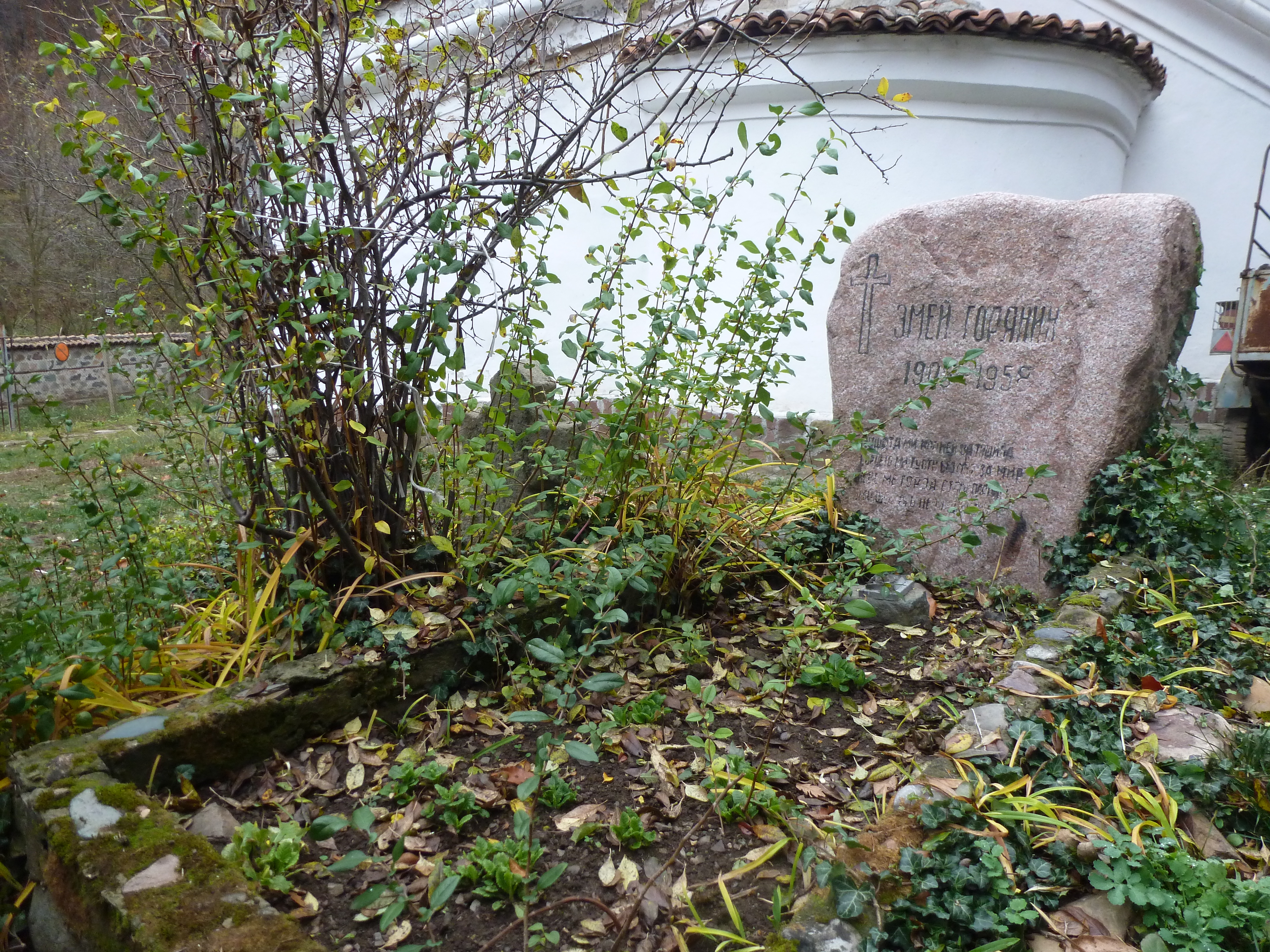 Seven Altars Monastery, Bulgaria.